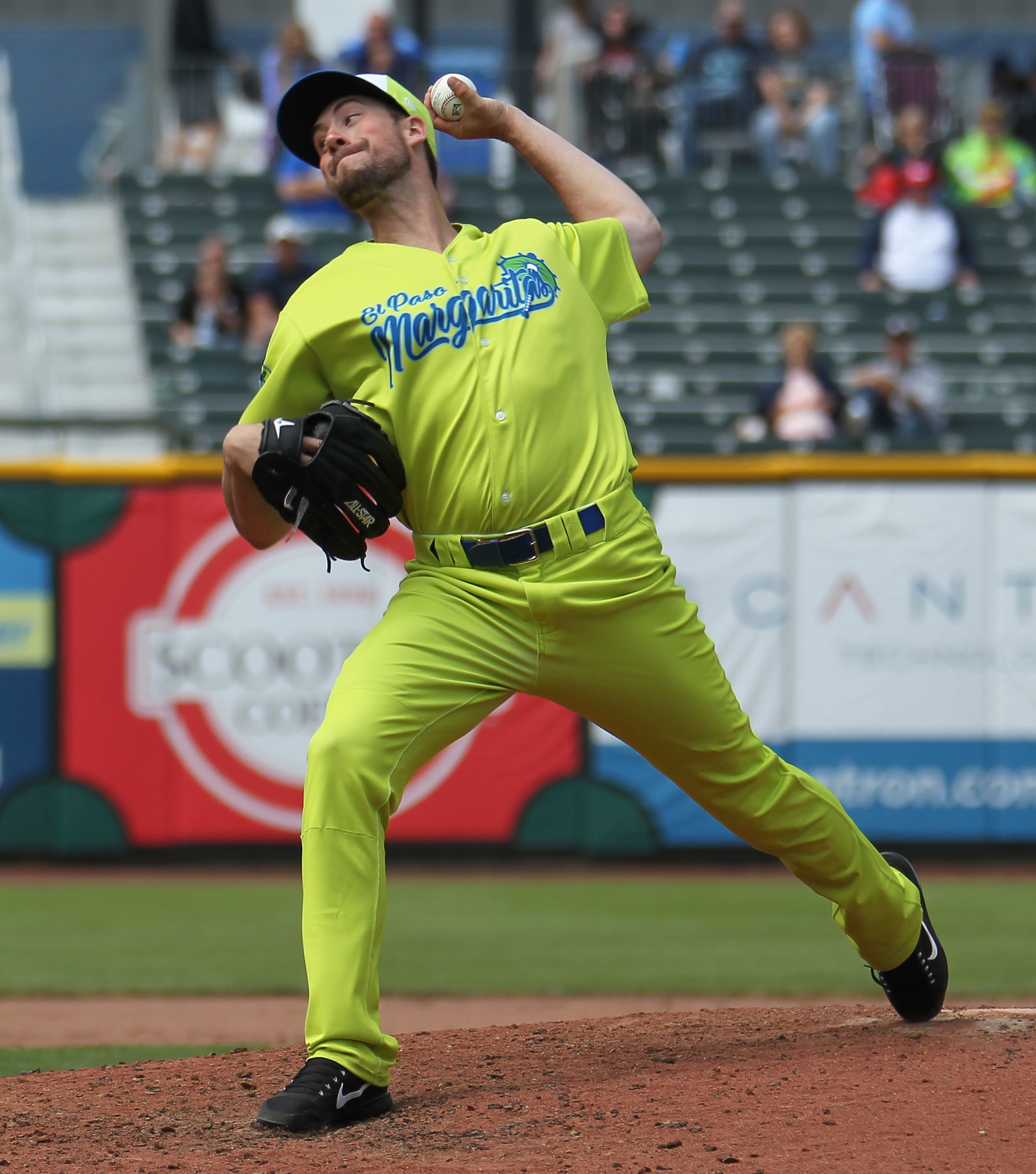 Kyle McGrath delivers a pitch for the El Paso Chihuahuas during a June 2019 game at Werner Park in Nebraska.